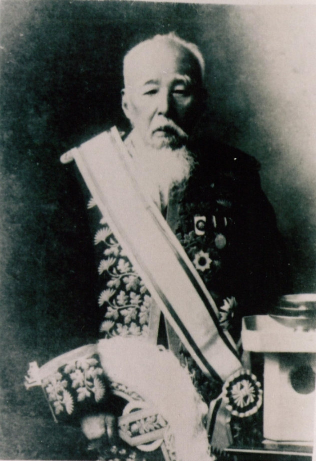 Japanese Sinologist and jurist Mishima Chūshū (1831-1919).